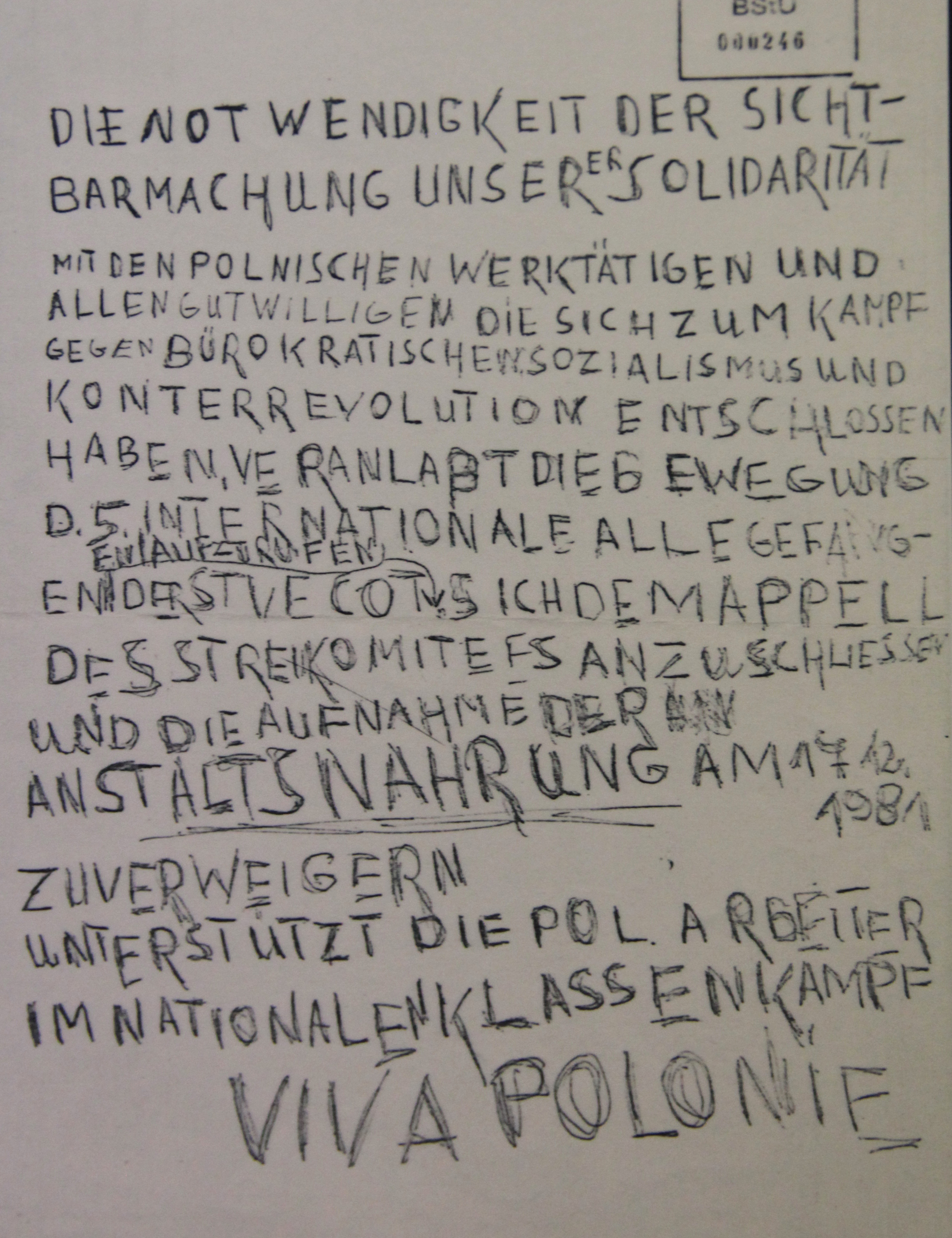 Leaflet made by political prisoners in Cottbus Prison calling for hunger strike for Solidarnosc. The objective of the strike was to protest against imposing martial law in Poland on 13 December 1981 and to support polish Solidarity movement.